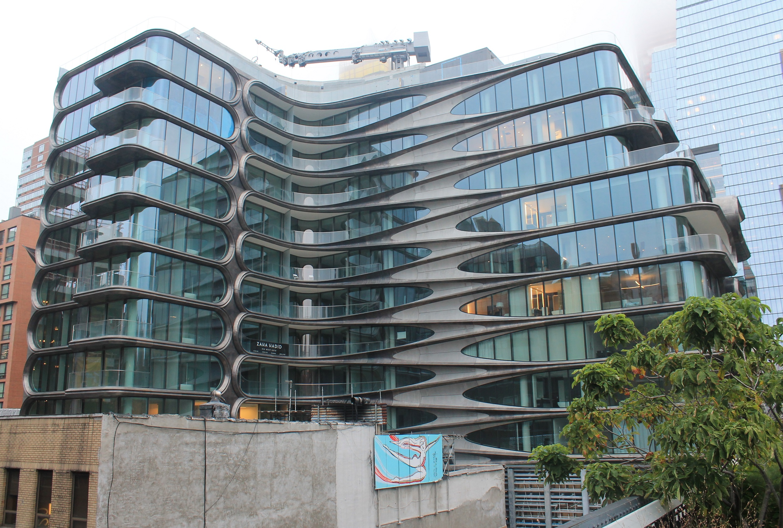 Zaha Hadid's 526 West 28th Street seen from the High Line on 15 October 2017.